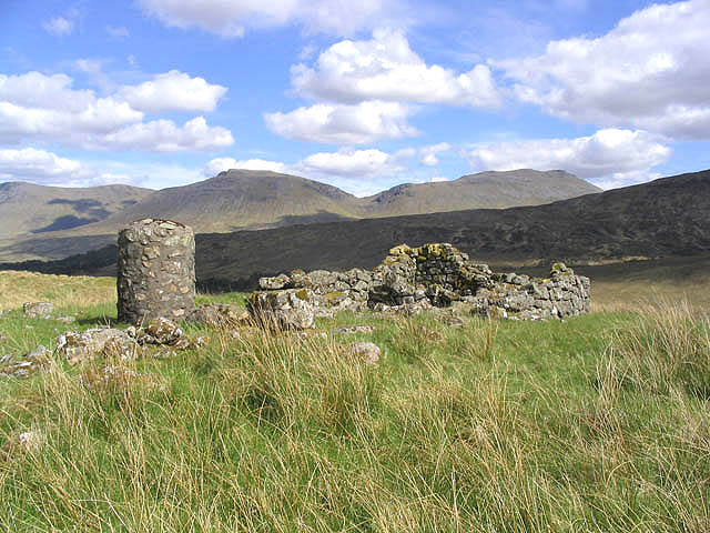 The Duncan Ban MacIntyre Memorial A circular cairn commemorating the life of the Gaelic poet Duncan Ban MacIntyre (1724-1812) is set in the ruins of a building 1.2km to the west of the Inveroran Hotel. The mountain behind the cairn is Beinn an Dothaidh with Beinn Dorain to the right.